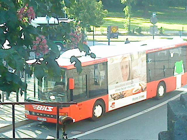 Line C6 by Bils